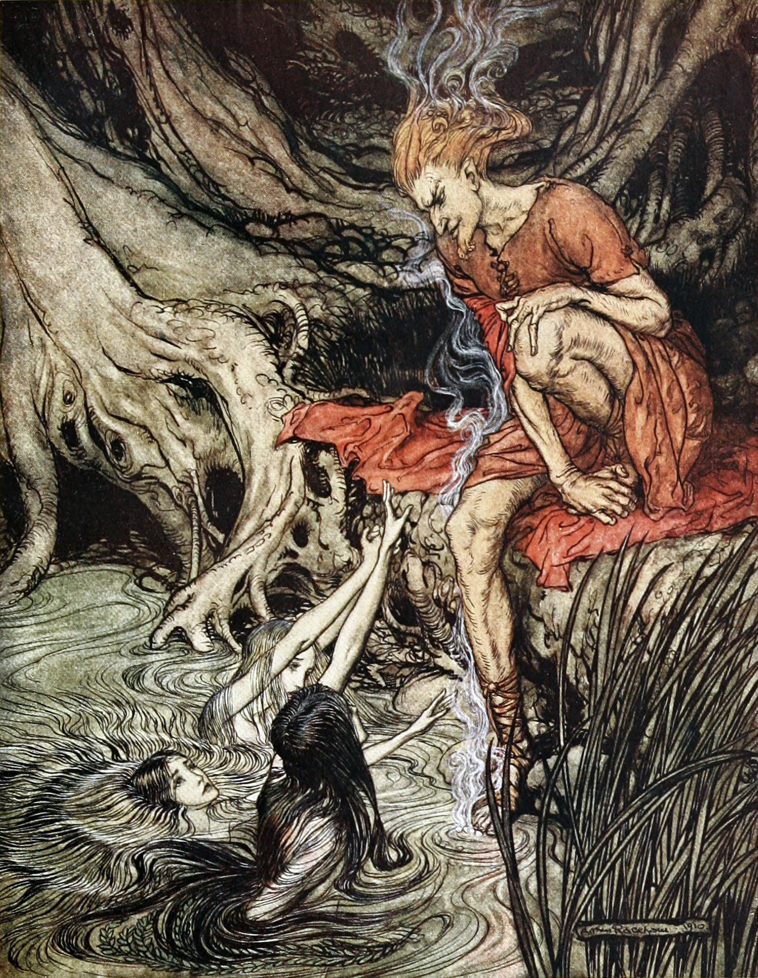 "The Rhine's pure-gleaming children / Told me of their sorrow"